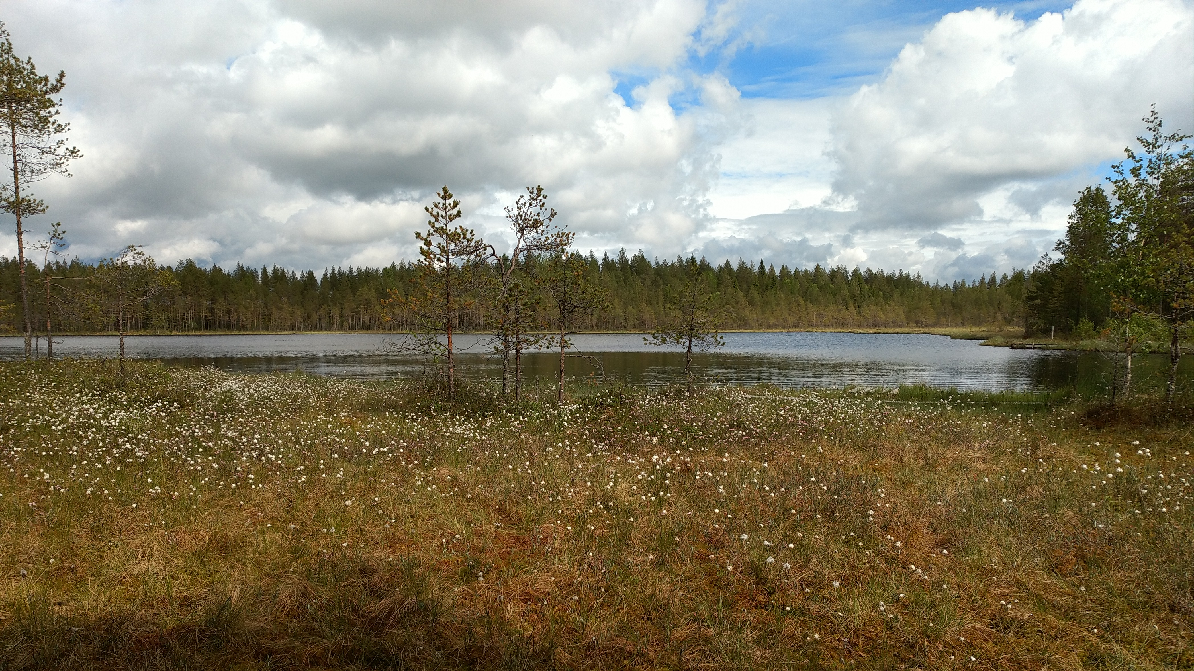 The small lake Mustalampi in Niiles, Oulu, located in between the bigger lakes Niilesjärvi and Valkiaisjärvi.